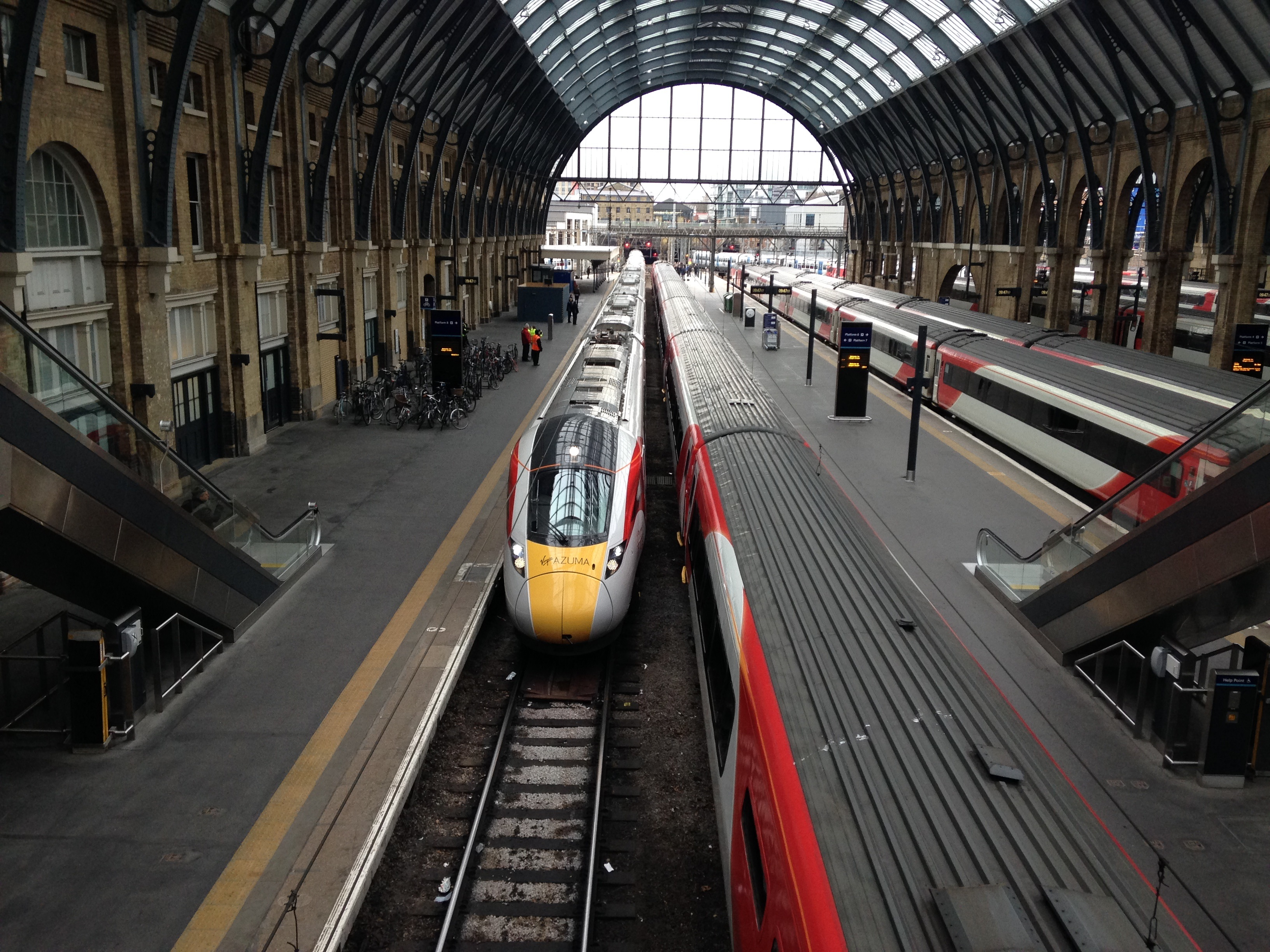 The new Virgin Azuma trains arrives at King's Cross.